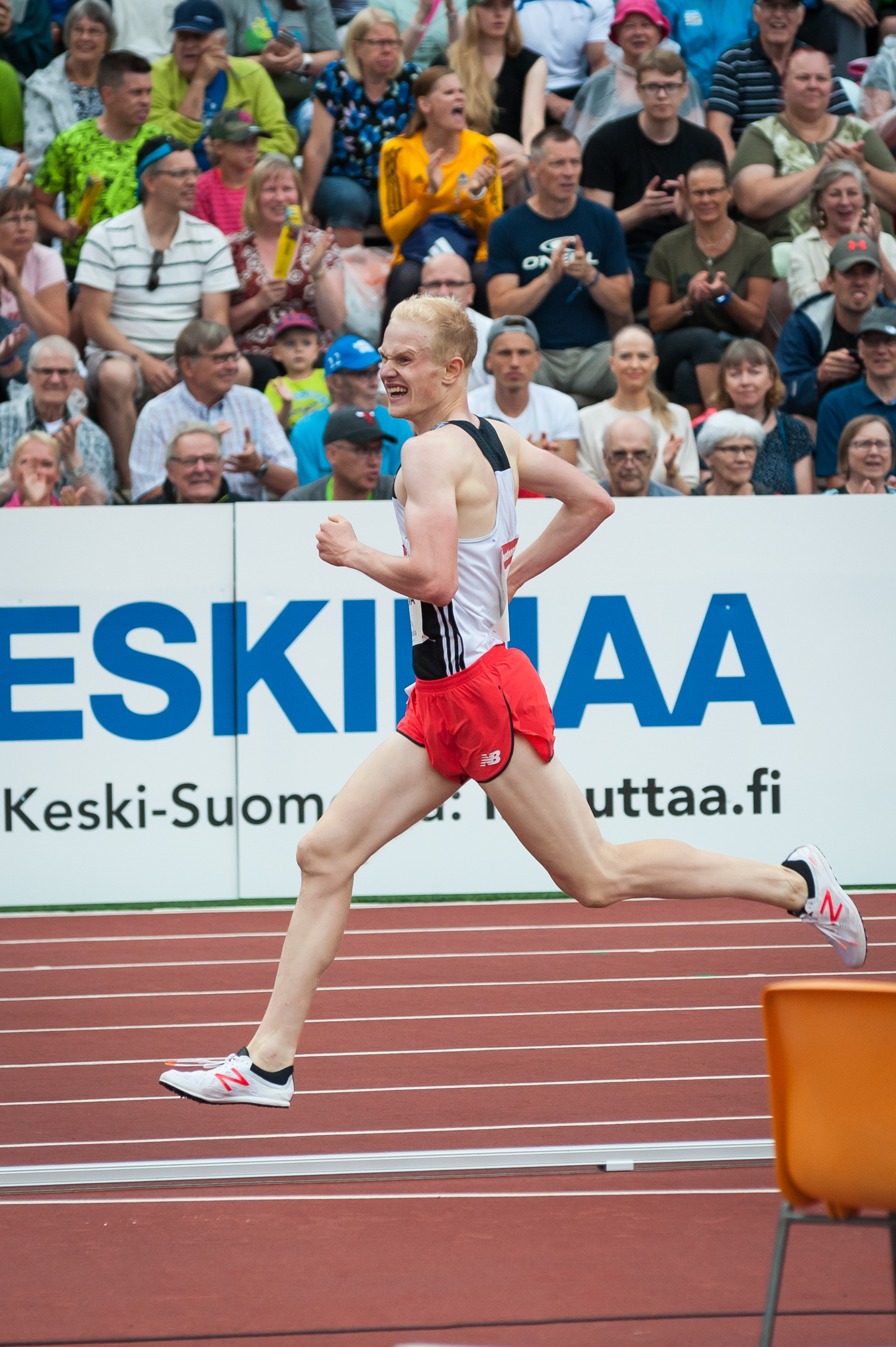 Men's 5000 m competition at the 2018 Kalevan Kisat, the Finnish championships in athletics, in Jyväskylä, Finland.